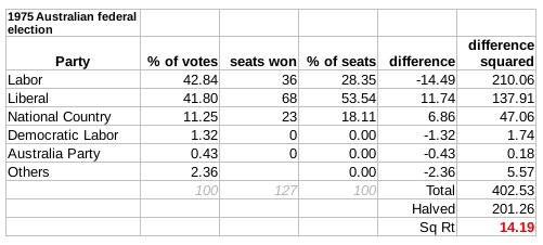 Gallagher Index, 1975 Australian Federal Election